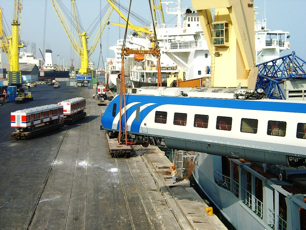 Shahid Rajai Port is a important cargo terminal in south of Iran. Siemens diesel trains being unloaded in the port by ship crane.